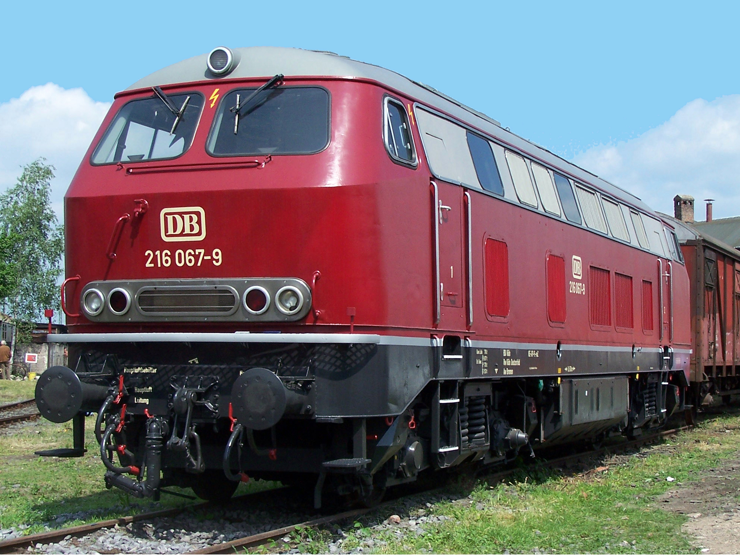 Diesel locomotive 216 067 on the exhibition ground of the DB Museum in Koblenz-Lützel, a local branch of the Transport Museum in Nuremberg, June 2012